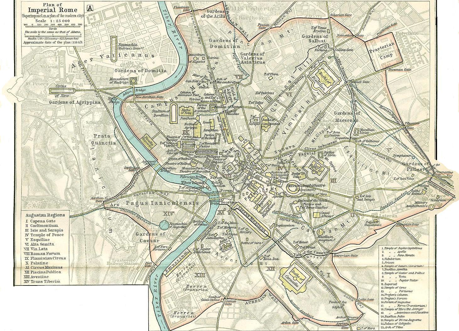 A map of Imperial Rome in AD 350 superimposed on a map of 20th century Rome taken from William R Shepherd's Historical Atlas.